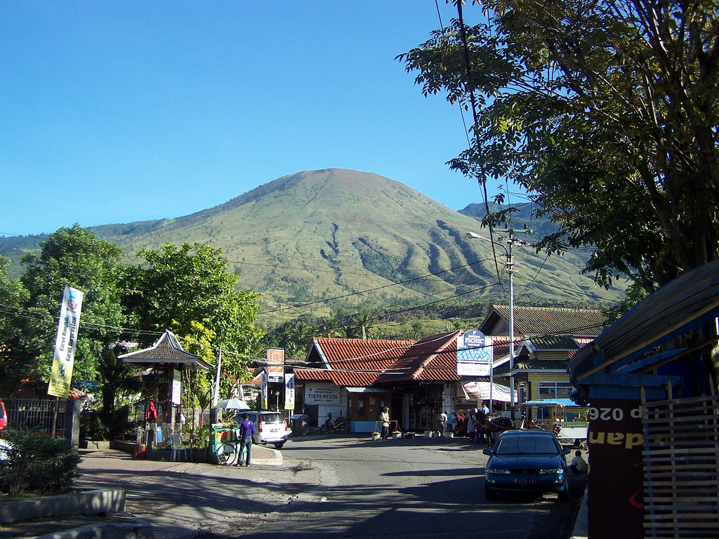 Mount Guntur as viewed from Cipanas, Garut.